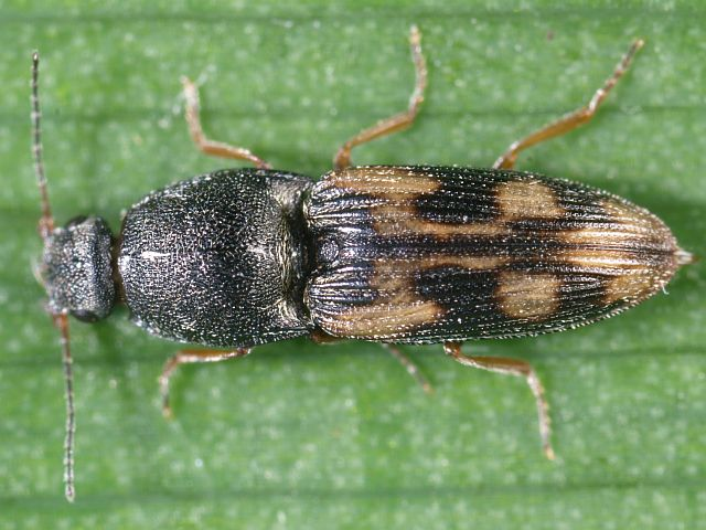 Negastrius pulchellus. Location: The Netherlands - Breemwaard-Noord